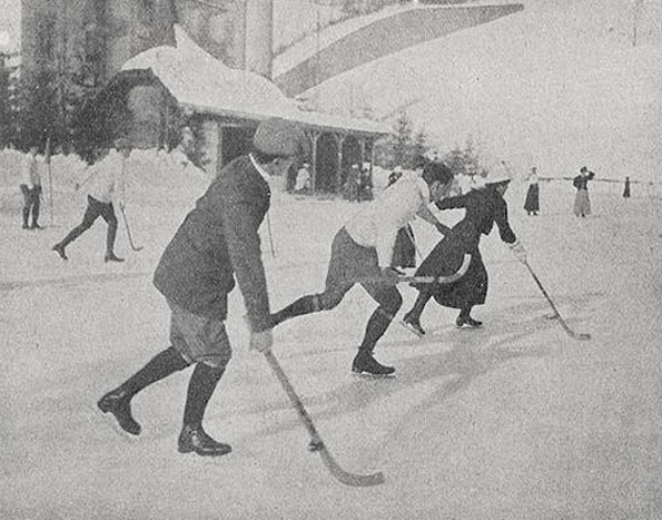 wintersports in engelberg